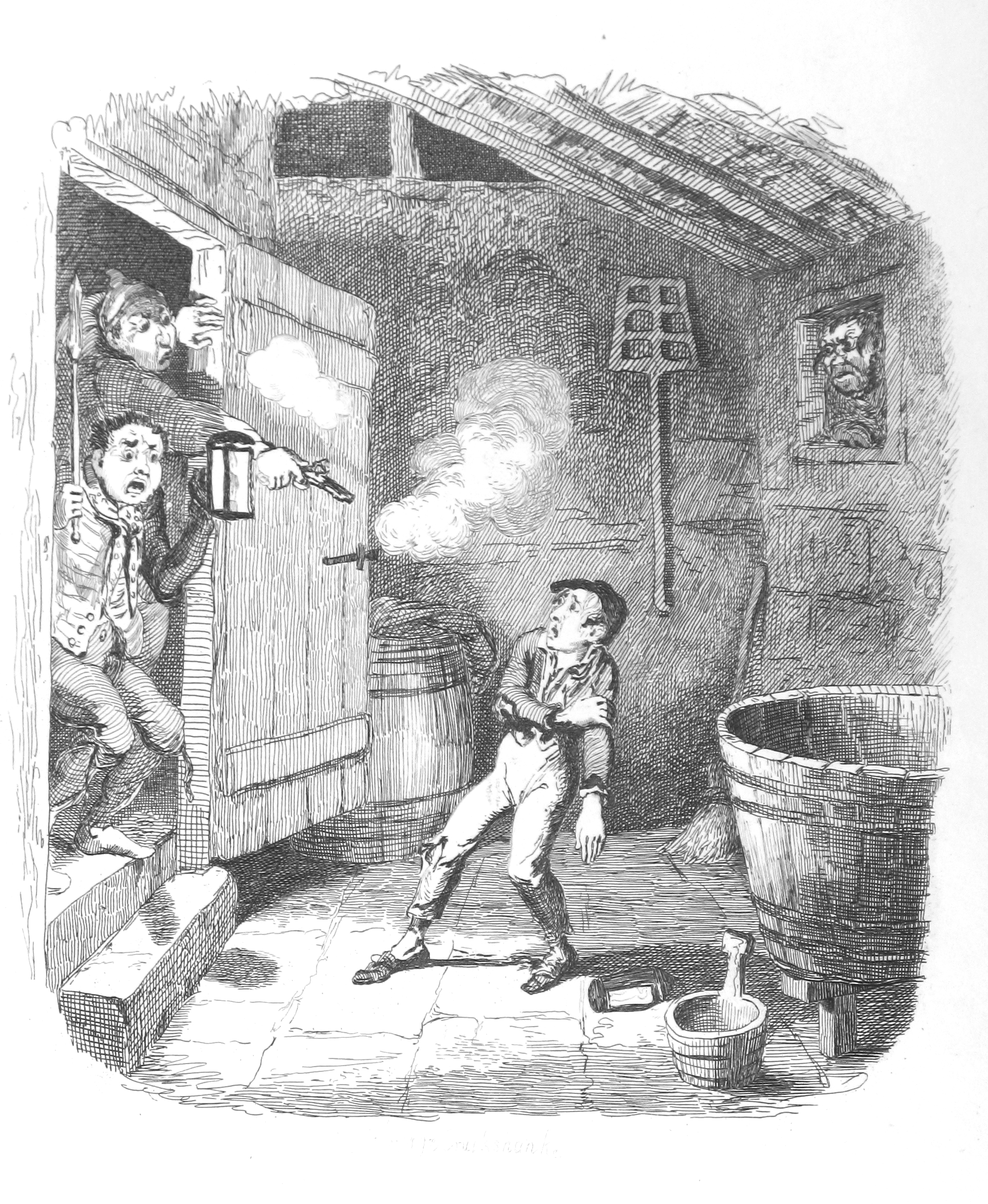 Copy of the Cruikshank drawing from Charles Dickens' Oliver Twist.